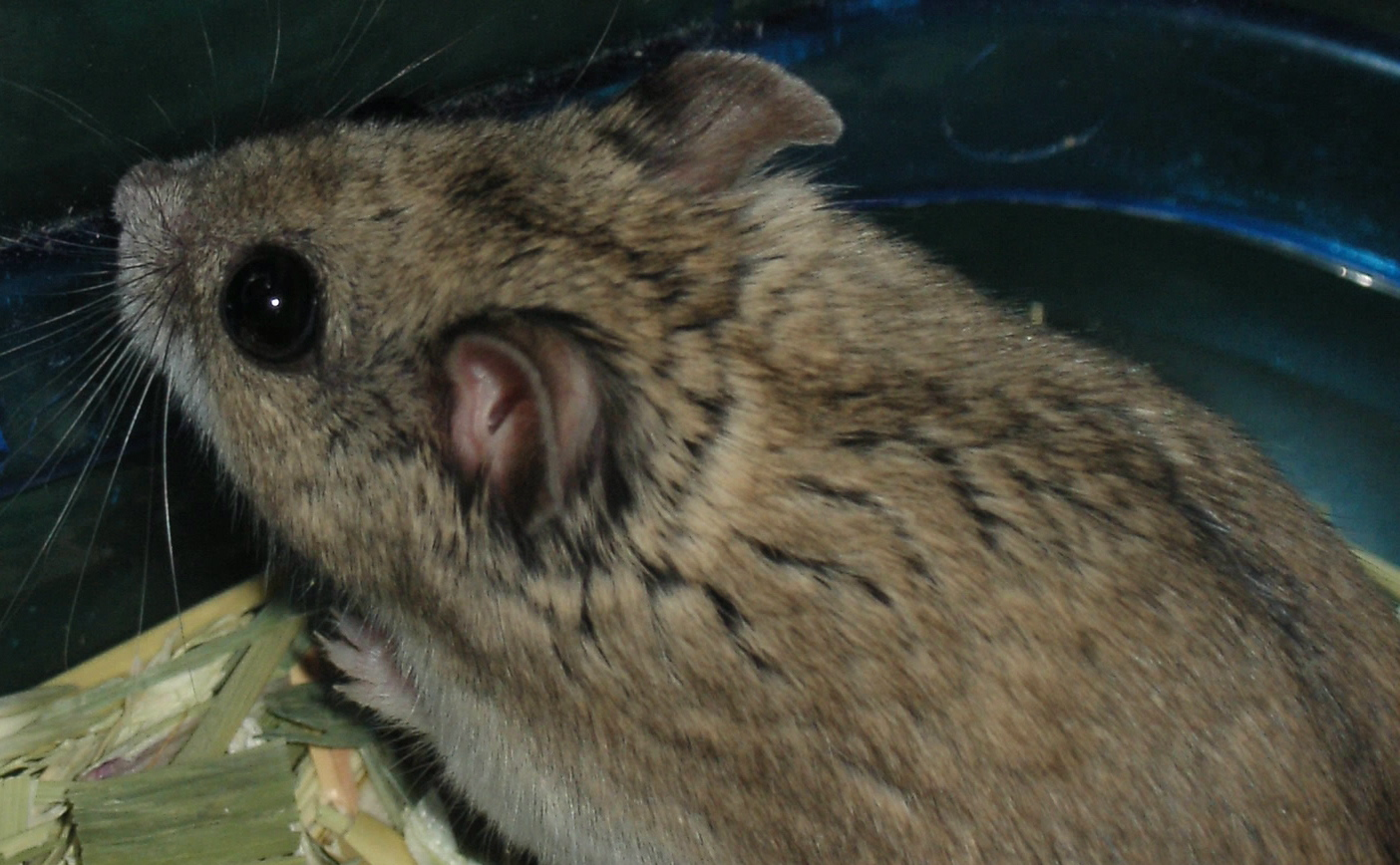 チャイニーズハムスター（茶色） Chinese hamster with brown hair.